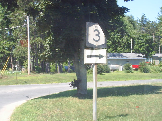 An old assembly for New York State Route 3 on Oswego County Route 3 east of Hannibal.